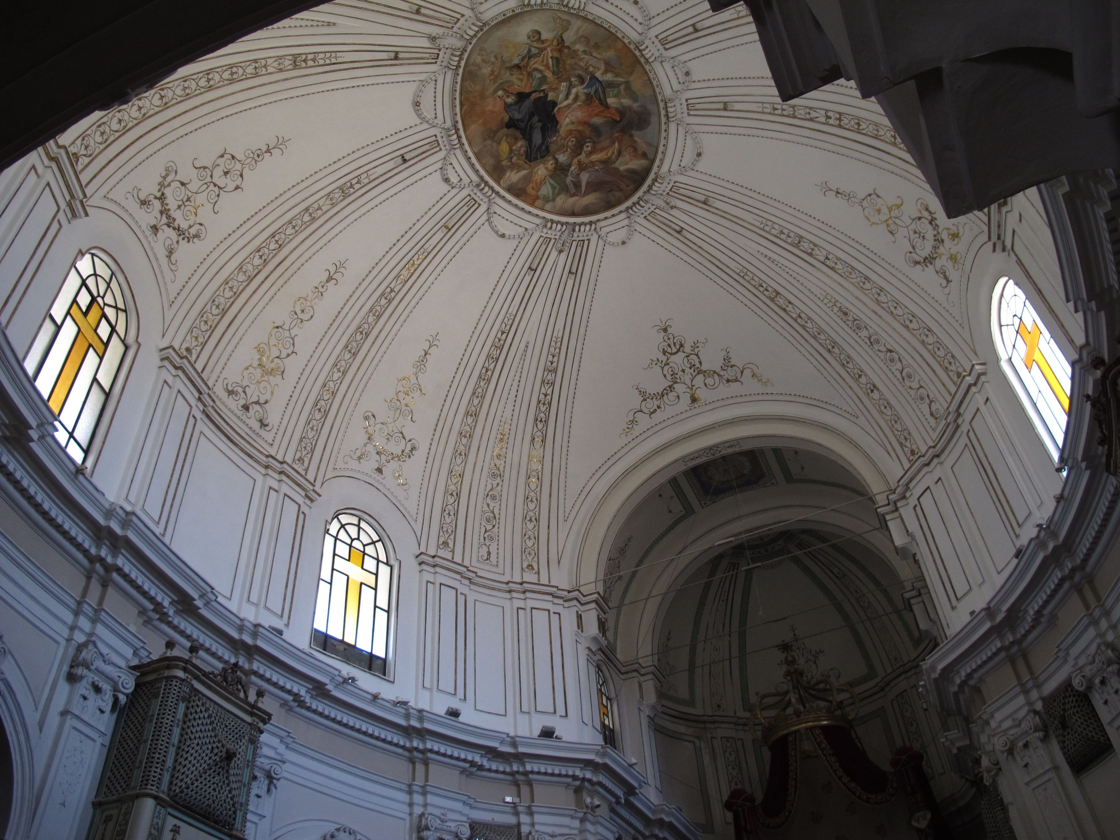 Interior of the church of San Giuseppe in Ragusa Ibla